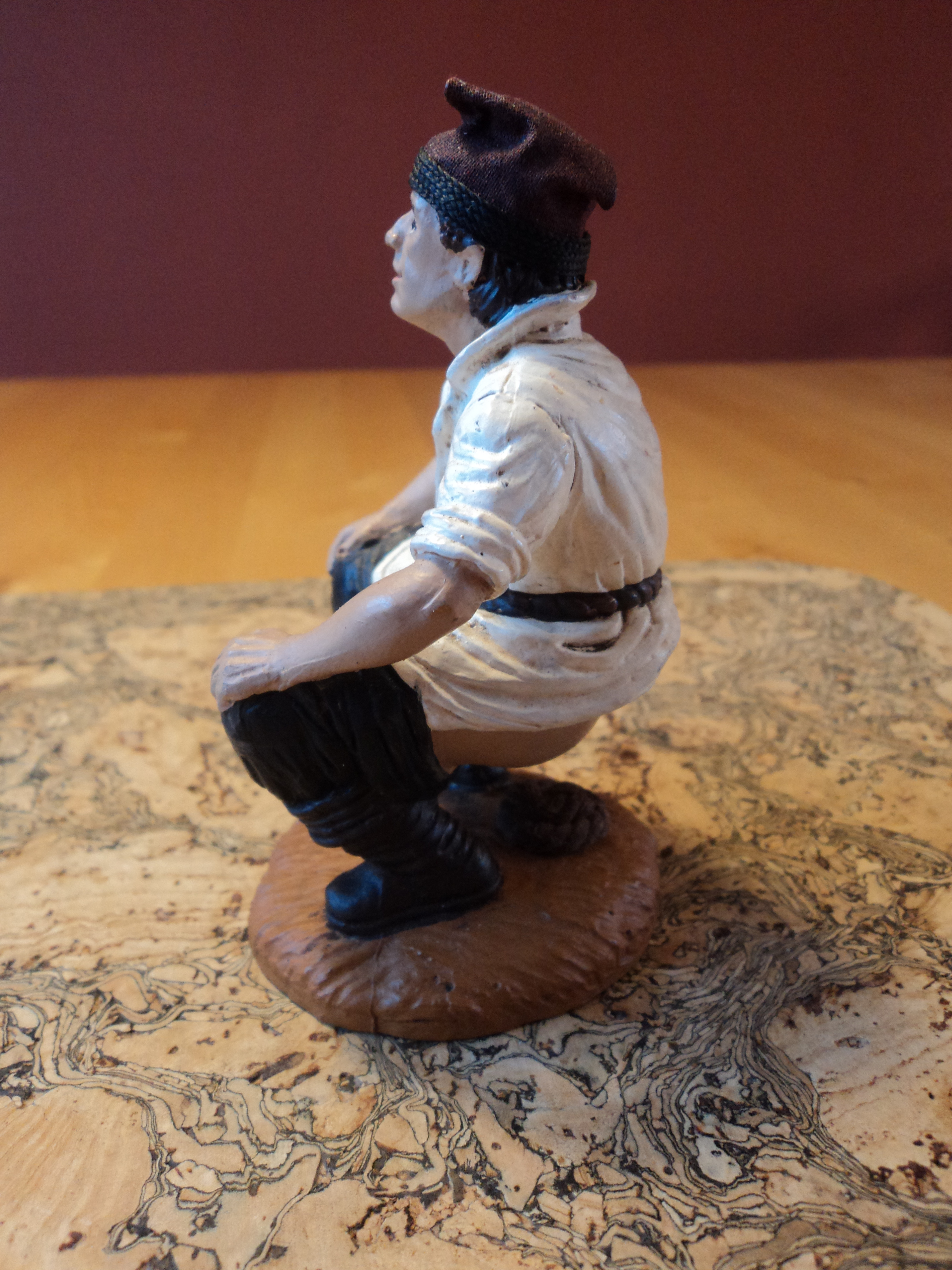 Caganer bought on 12 December 2012 in Barcelona at Fira de Santa Llucia.